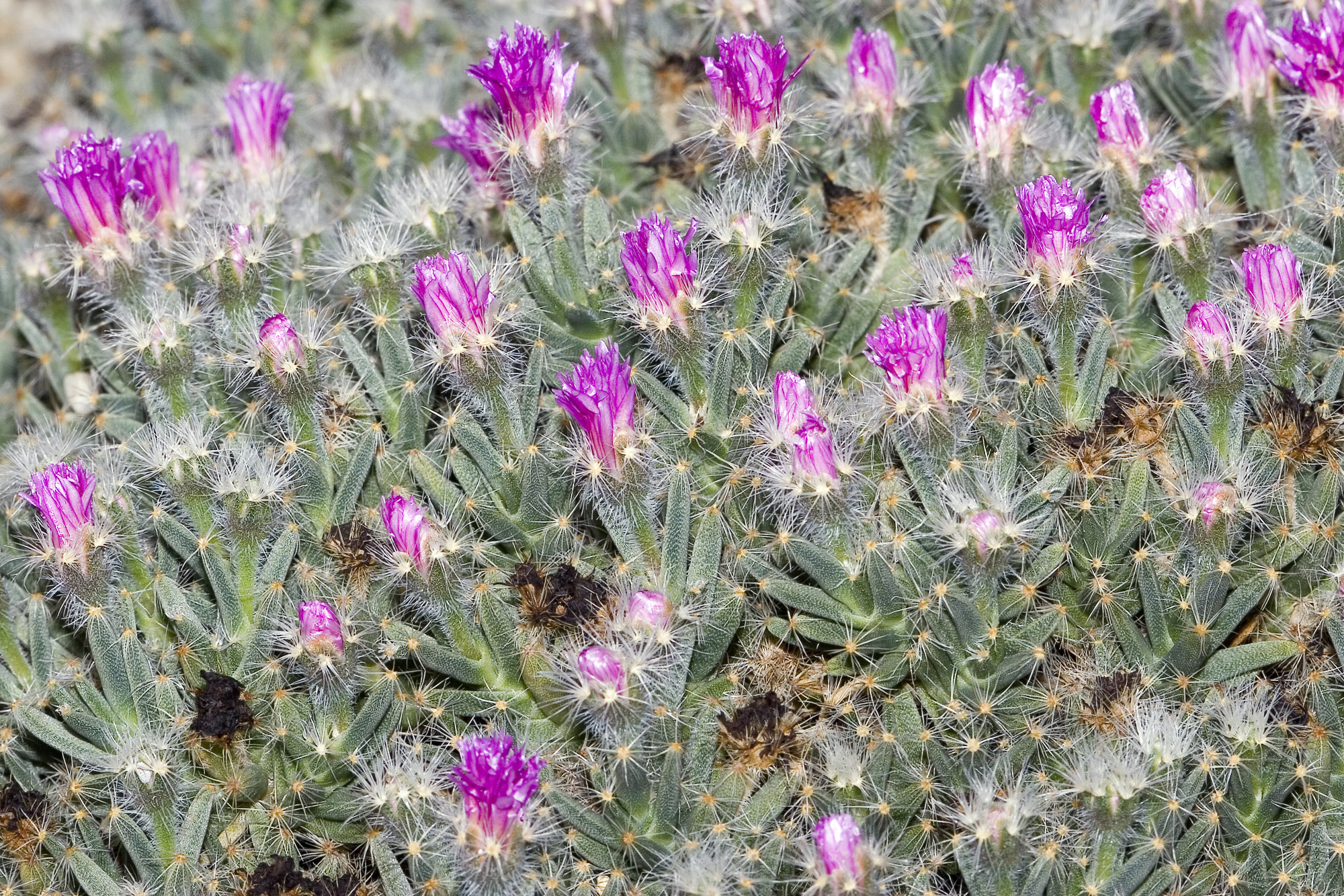 Trichodiadema densum